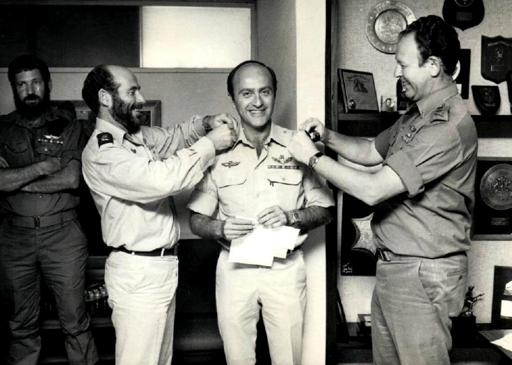 Dov Ram receives the rank of Capatian from Chief of Staff Mota Gur and Navy Rear Admiral Yumi Barkai in 1976